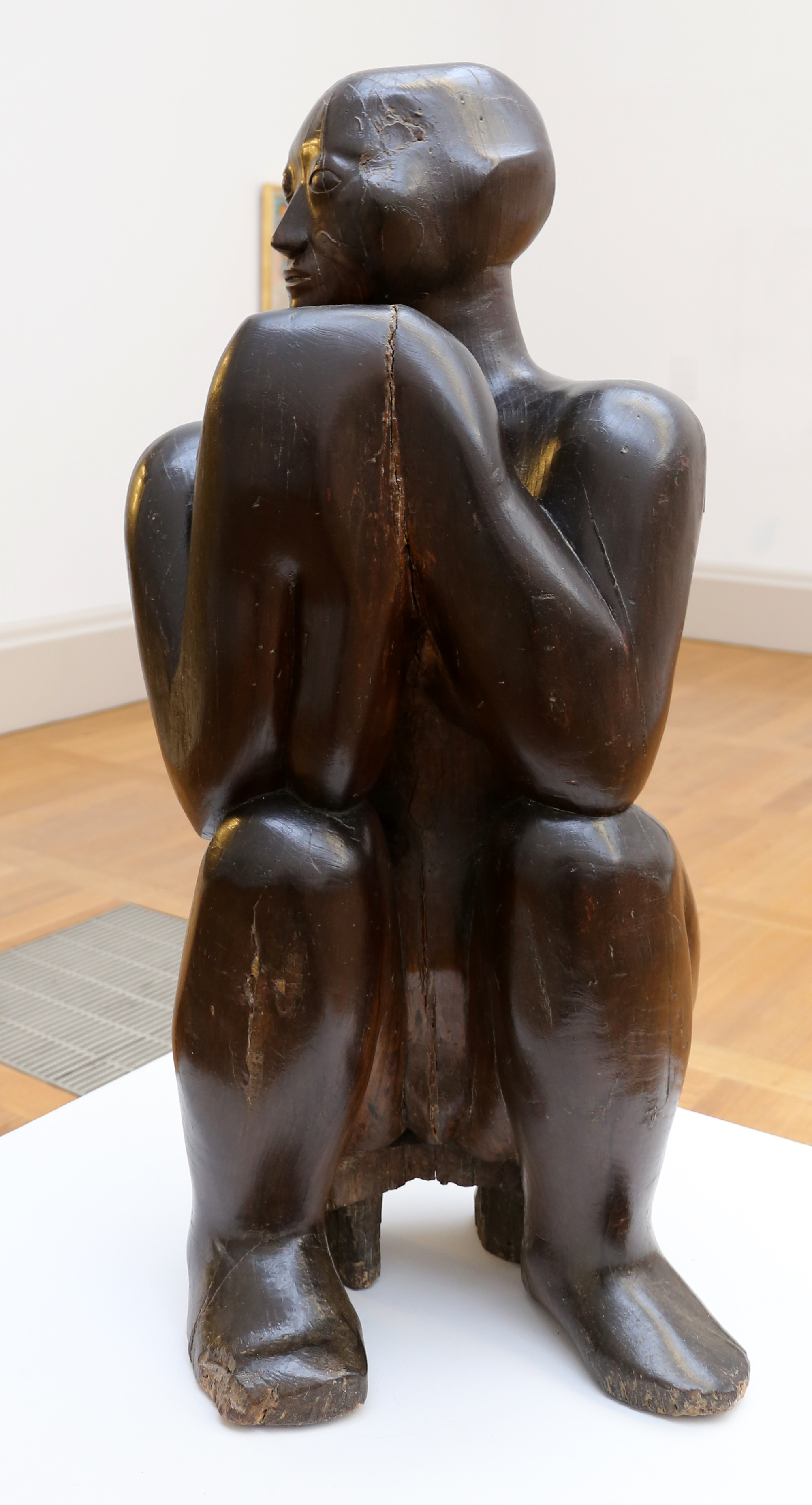 Sculptures in Tate Britain